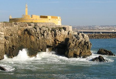 View of the fortress in Peniche on the West Coast of Portugal